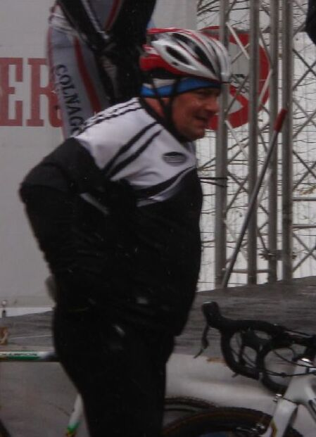 Roland Liboton at cyclocross Mol 2010